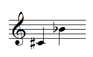 Notation, diminished seventh